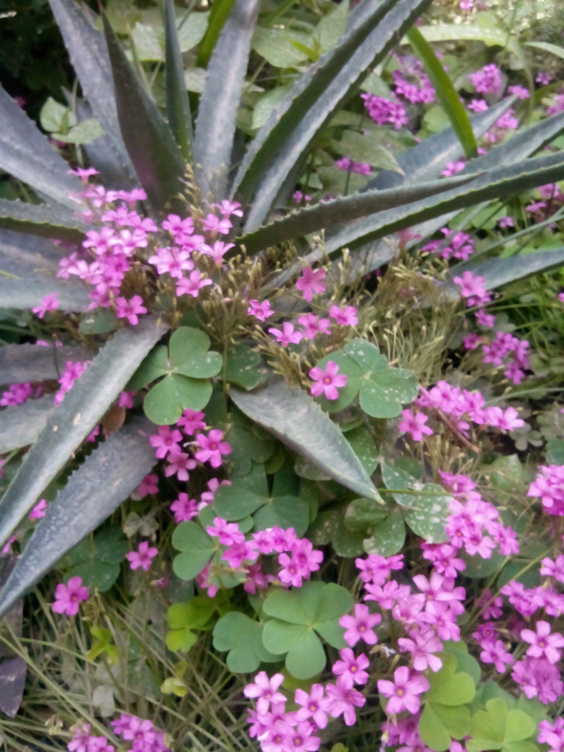 Flowers in the Garden